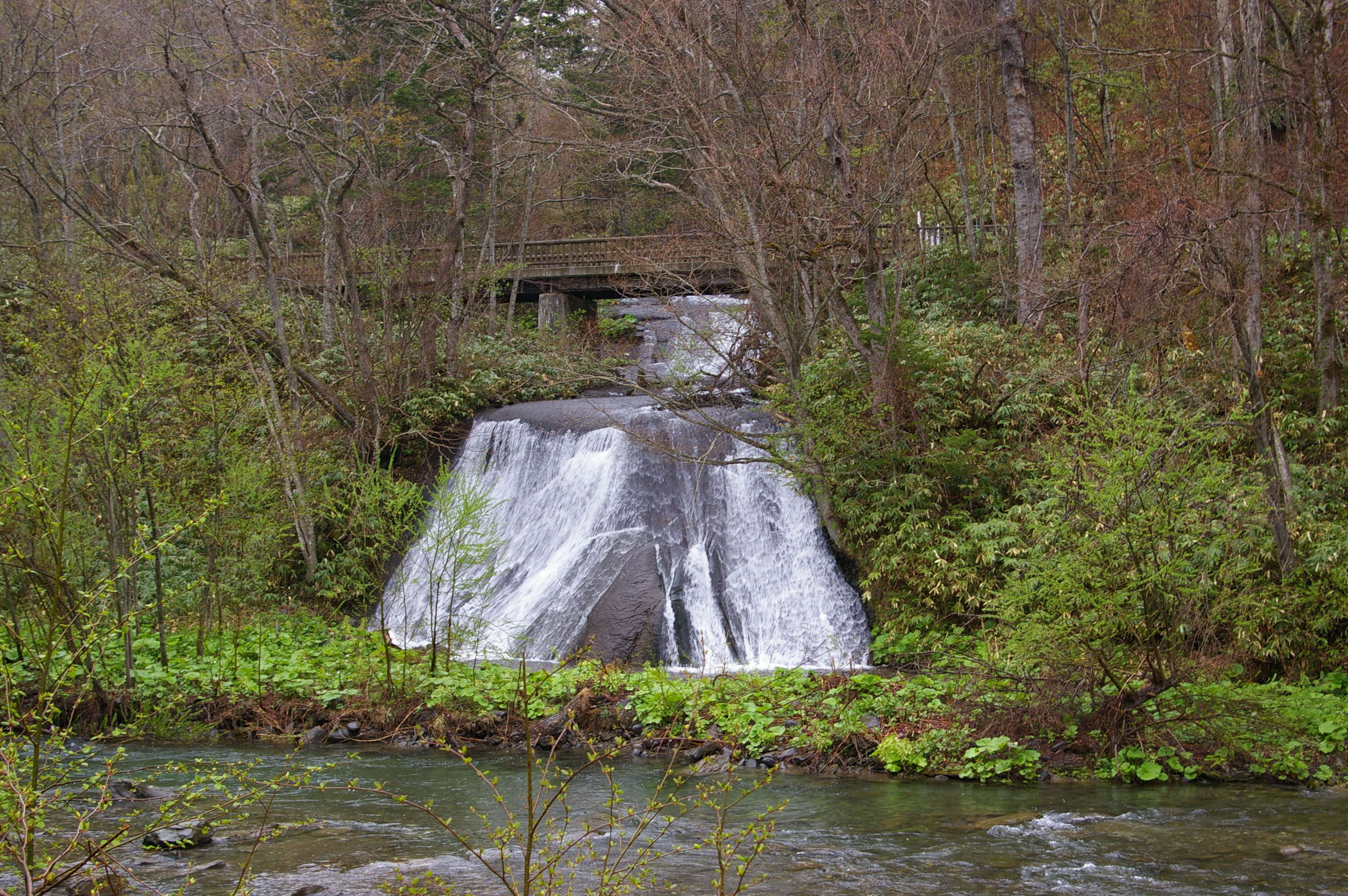 Rarumanai Fall, Rarumanai River (tributary to Izari River), Eniwa, Hokkaido